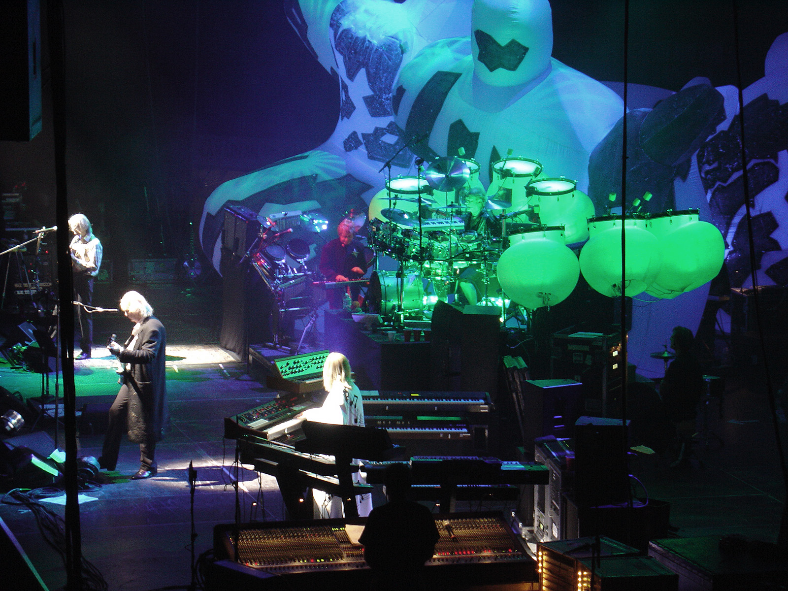 Yes concert at Air Canada Centre, Toronto, Ontario